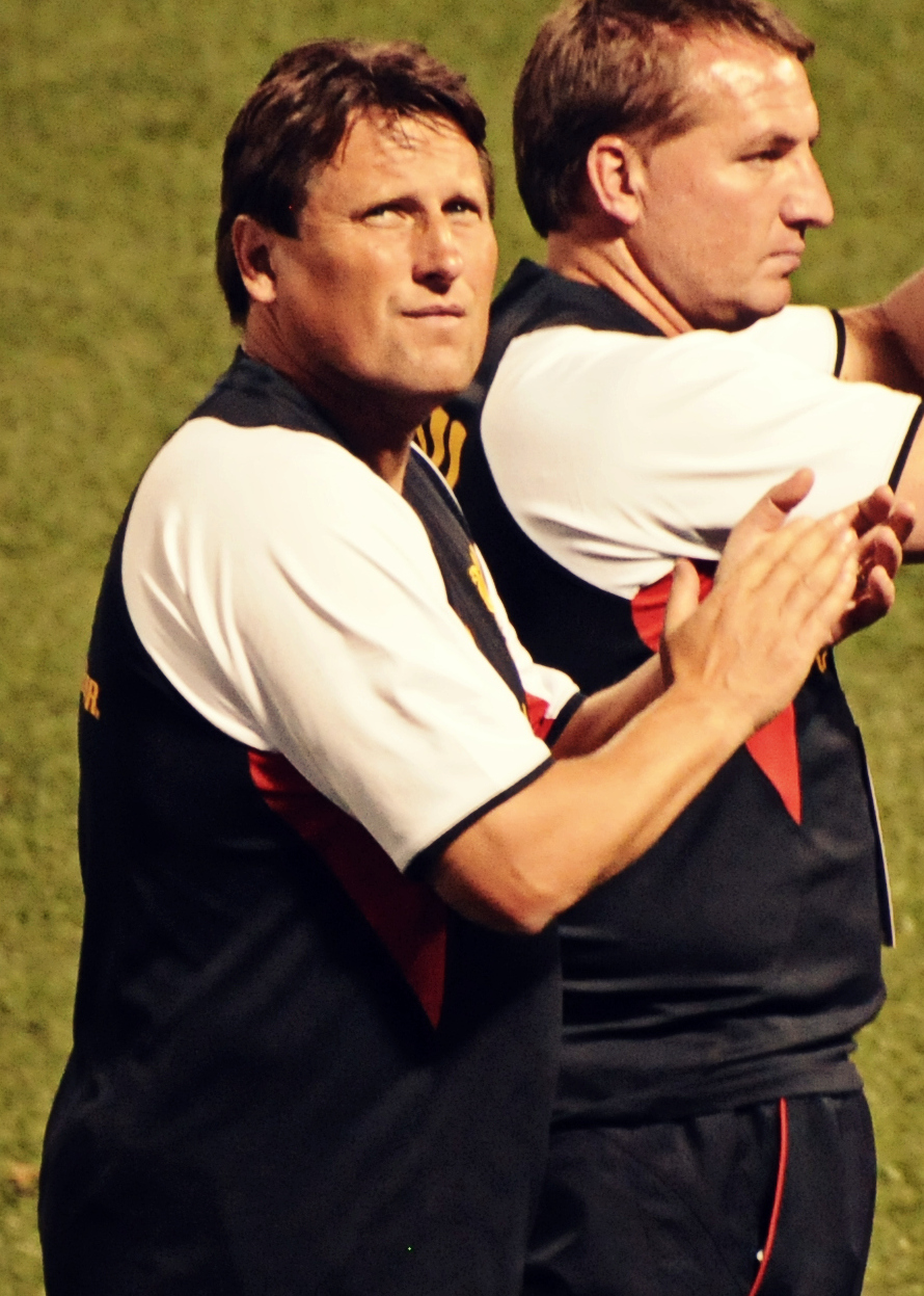 Colin Pascoe acknowledges the Liverpool fans after the match.